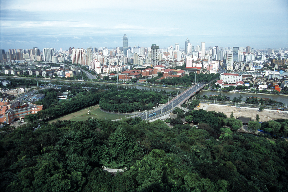 bird's-eye view of Wuxi City, taken with a Seagull SLR camera and FujiChrome Velvia 100F film